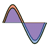 Diagram of the signal from an electronic ionization detector.